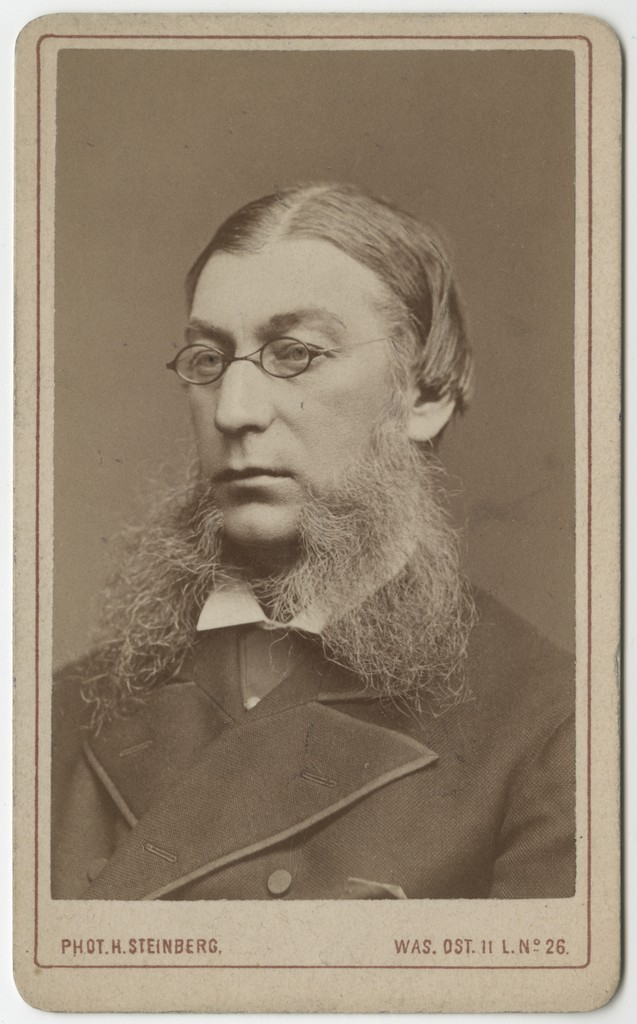 1833–1890, Tartu Ülikooli professor ja rektor - - - 1833–1890, professor and rector of the Tartu University Autor / Author: Hermann Steinberg, Peterburi / St. Petersburg Viitekood / Reference code: EAA.1435.1.15.27 Kirje andmebaasis FOTIS / Description in the database FOTIS